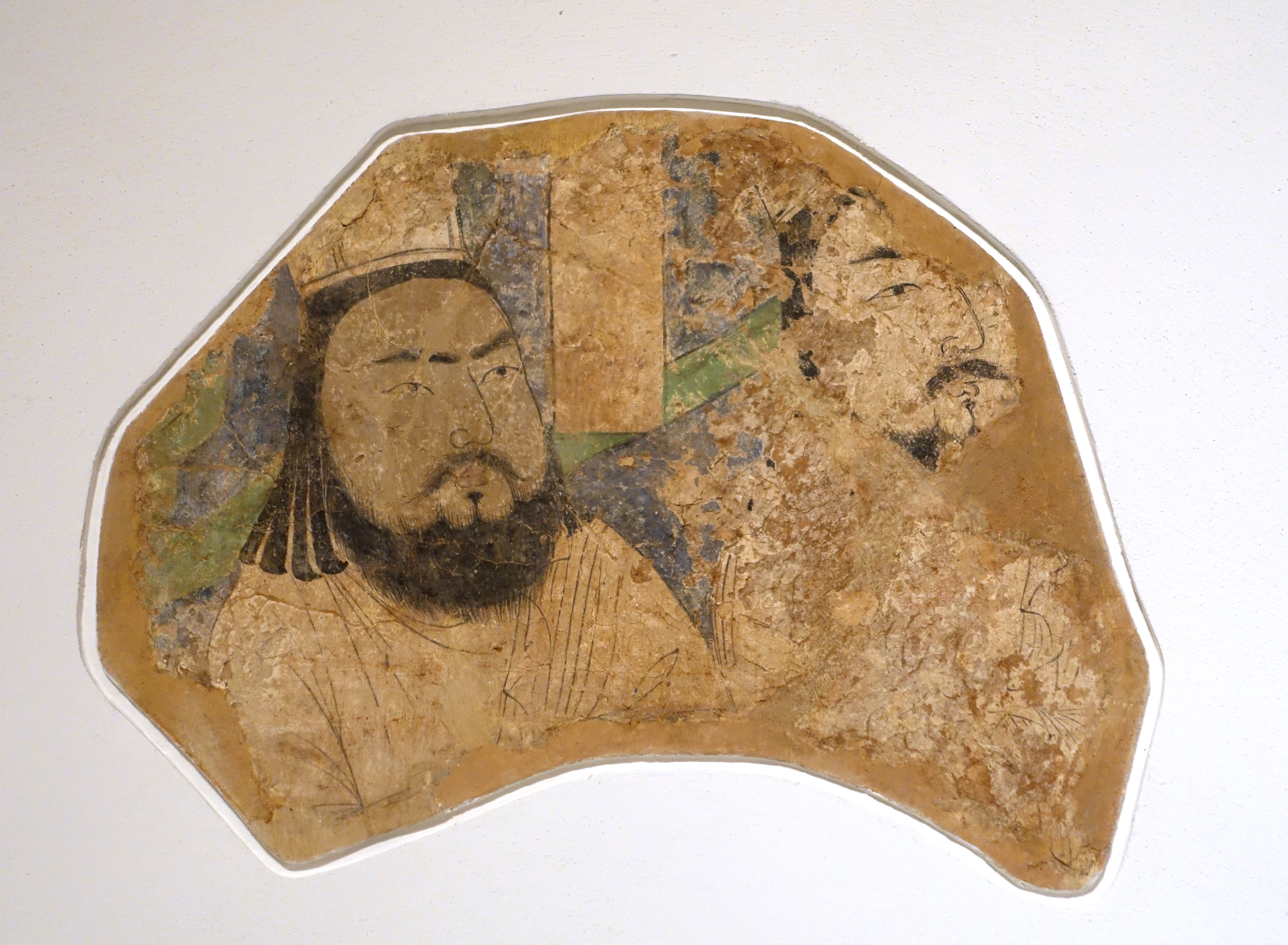 Exhibit in the Ethnological Museum, Berlin, Germany.